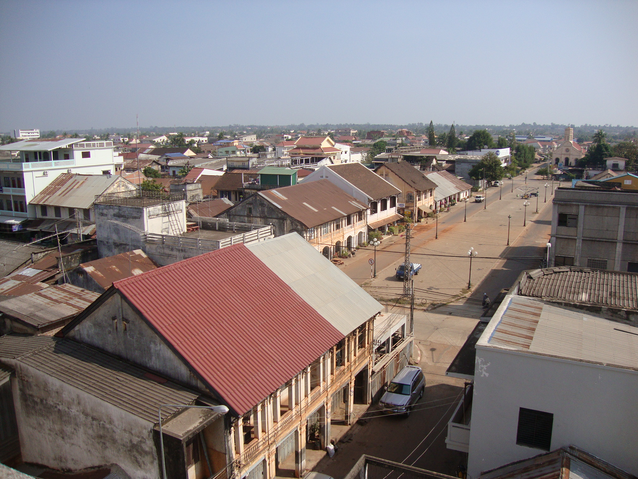 The old center of Kaysone Promvihane, also known as Savannakhet (city), with French colonial buildings. The photo is taken from a building close to the Mekong.